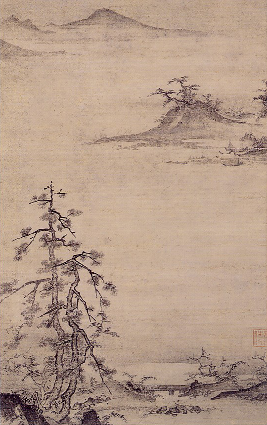 Landscape, by Bunsei, Masaki Art Museum, Tadaoka, Osaka, Japan